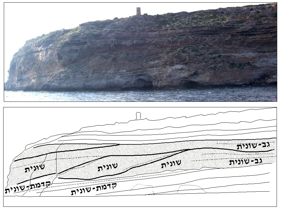 Preserved margin of a coral carbonate plarform. Miocene (Tortonian) of Mallorca (Balearic Islands - Spain). Visible the well bedded fore-reef sediments (left), the massive reef facies, characterized by prograding clinoforms and very thick depositional bodies, passing to the right into bedded back-reef facies.